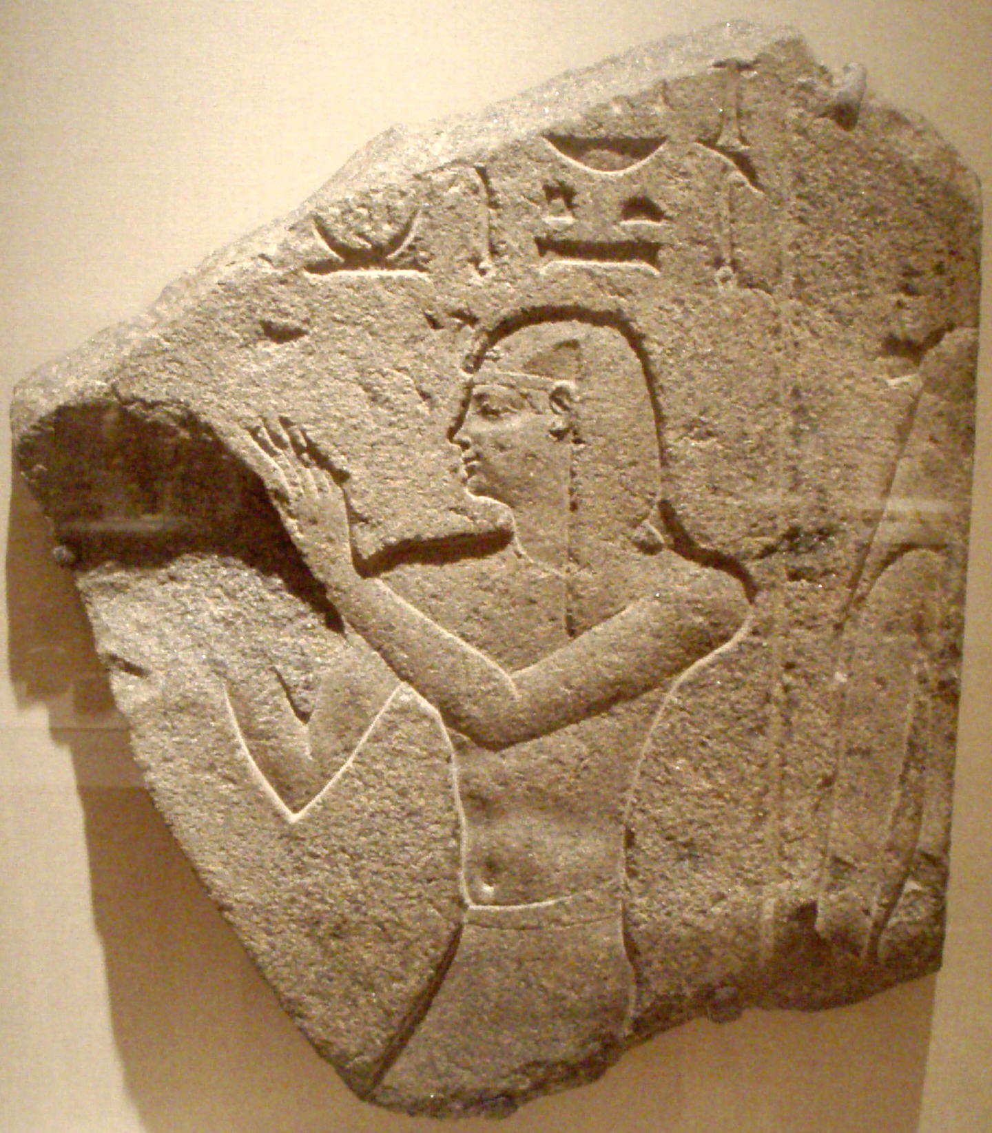 A relief image of Ptolemy II Philadelphos in the ancient Egyptian-style, inscribed on red granite.